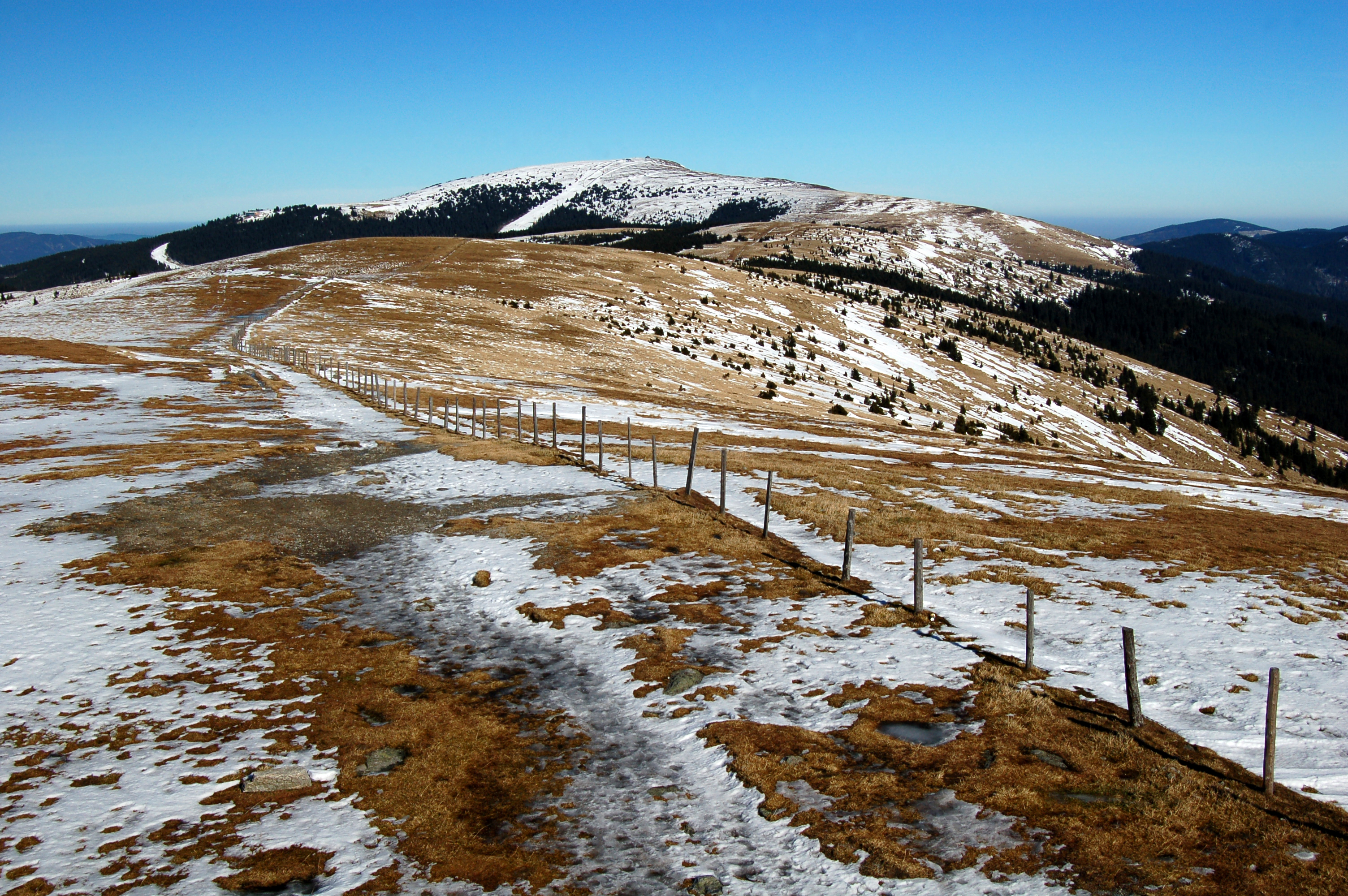 Stuhleck, a 1782m high mountain in Styria, Austria, as seen from Pretul.